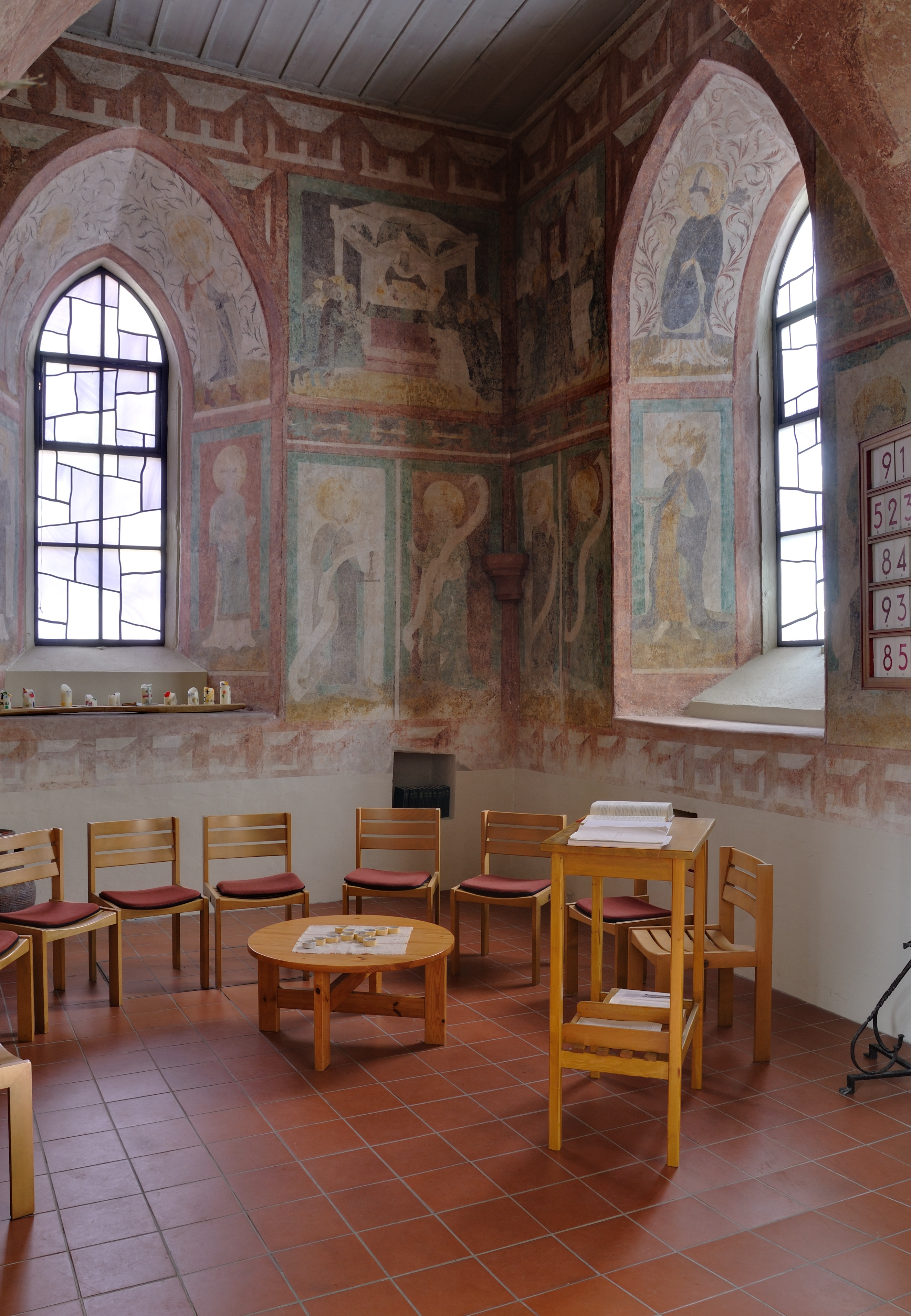 Mappach: Protestant Church